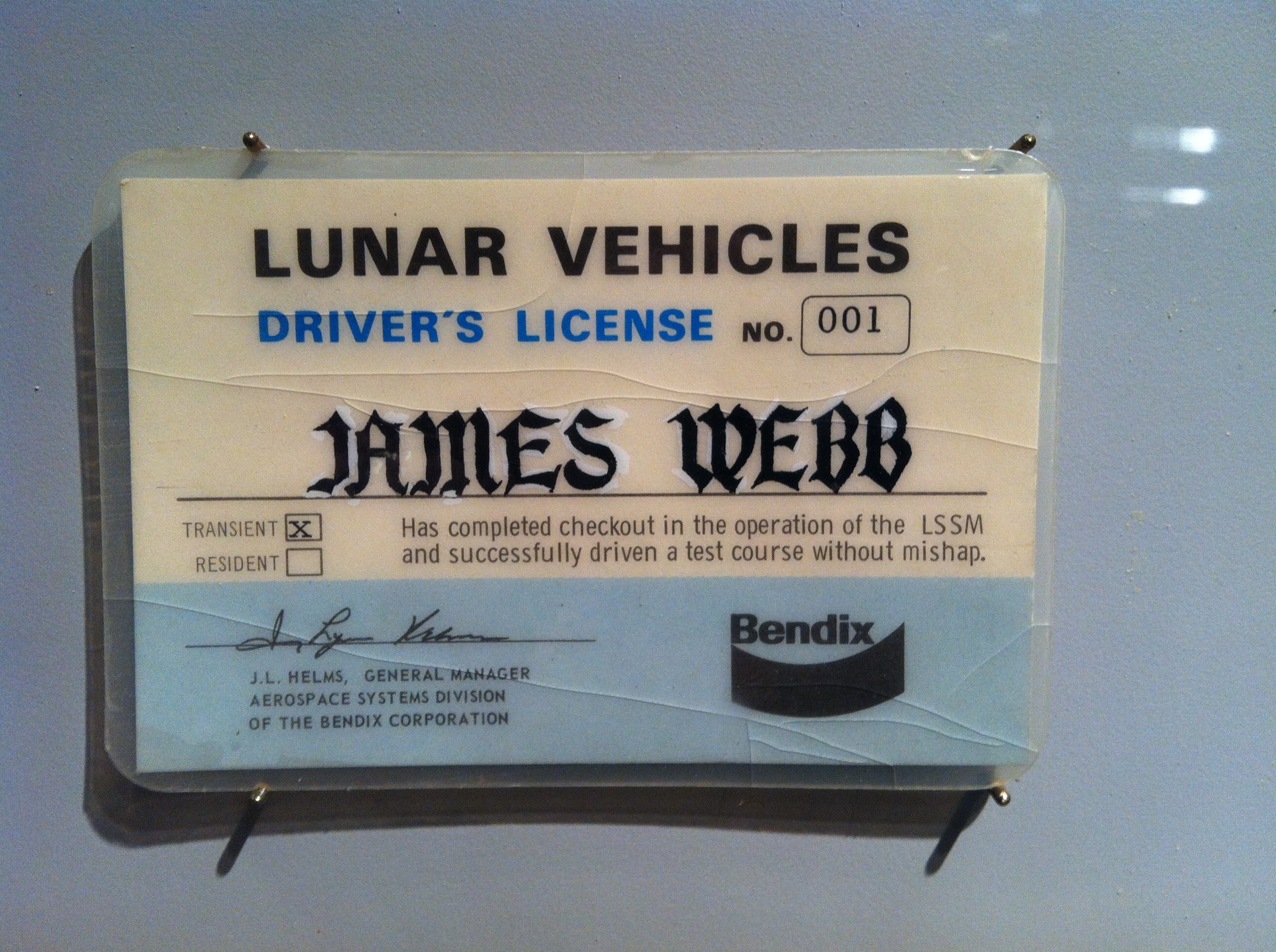 photograph of the honorary drivers license presented to then NASA head James Webb